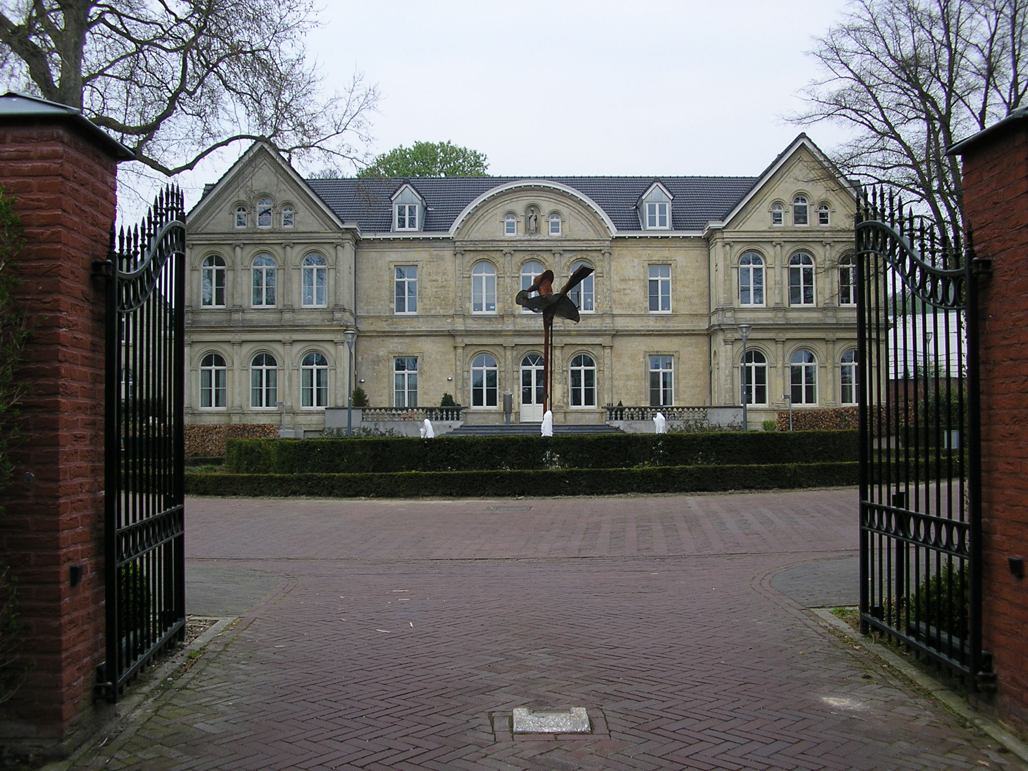 Valkenburg aan de Geul, Netherlands. View of Broekhem, both the name of a road and neighbourhood with mainly hotels and villas. Here: Villa Strabeek.